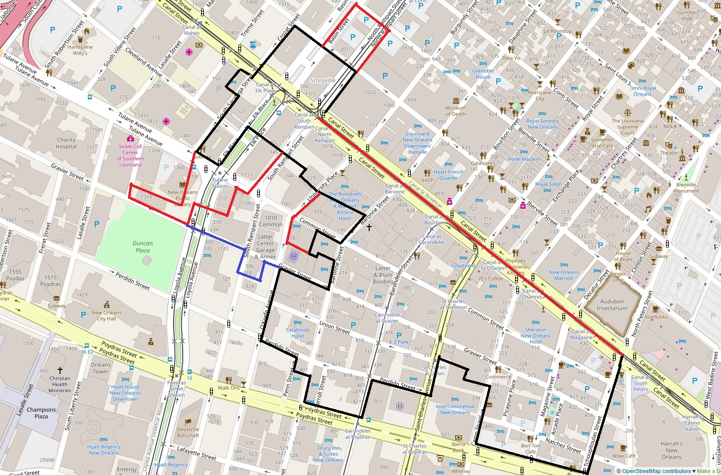 New Orleans Lower Central Business District (black) with Increase I (red) and Increase II (blue) This map may be incomplete, and may contain errors. Don't rely solely on it for navigation.